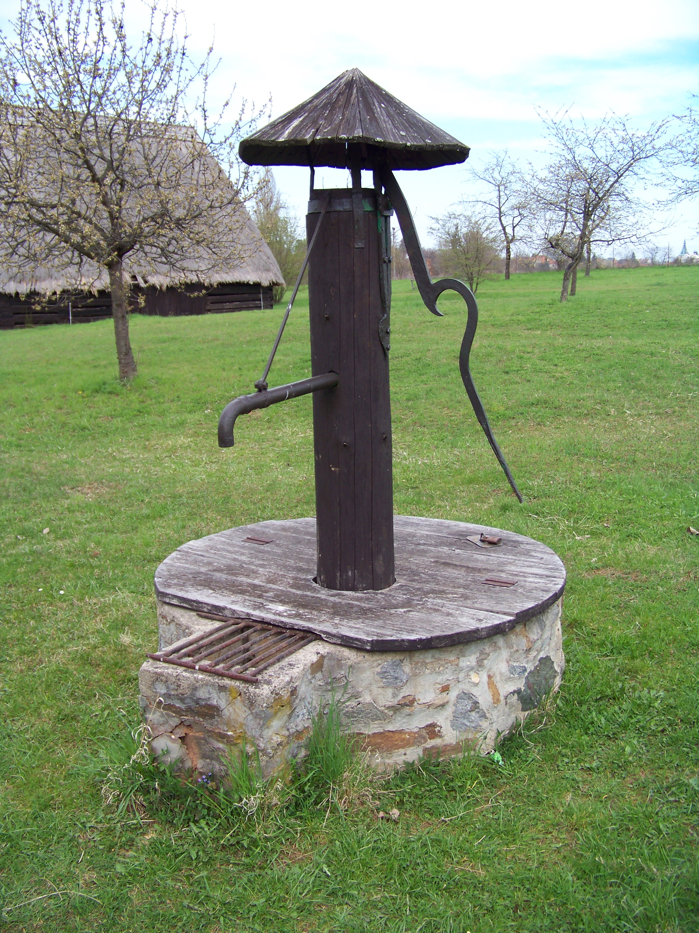 Kouřim, Kolín District, Central Bohemian Region, the Czech Republic. Open air museum.